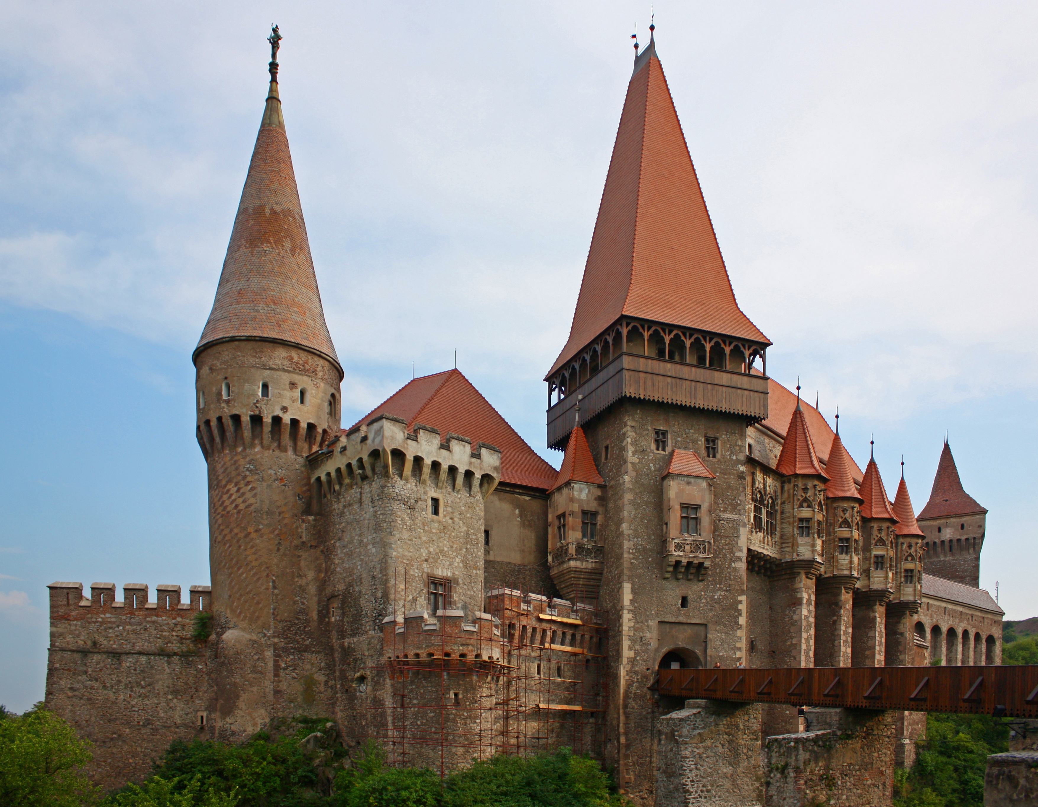 Huniazilor Castle